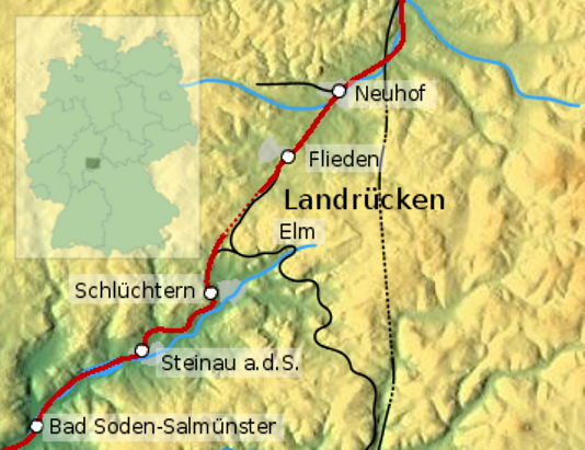 Railway tunnels in the German mountain range Landrücken: Schlüchterner Tunnel Landrückentunnel